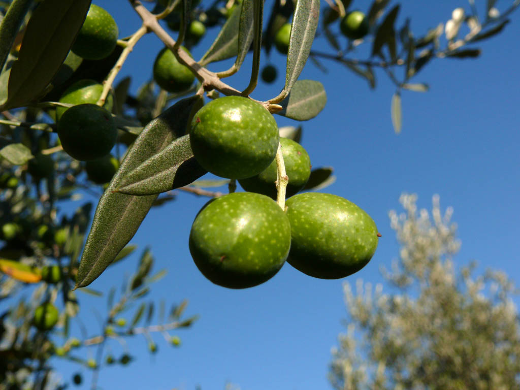 Olives on tree